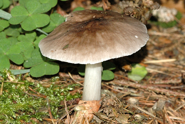 Pluteus spec. from Commanster, Belgium. The determination of the species shown in this picture has been verified.